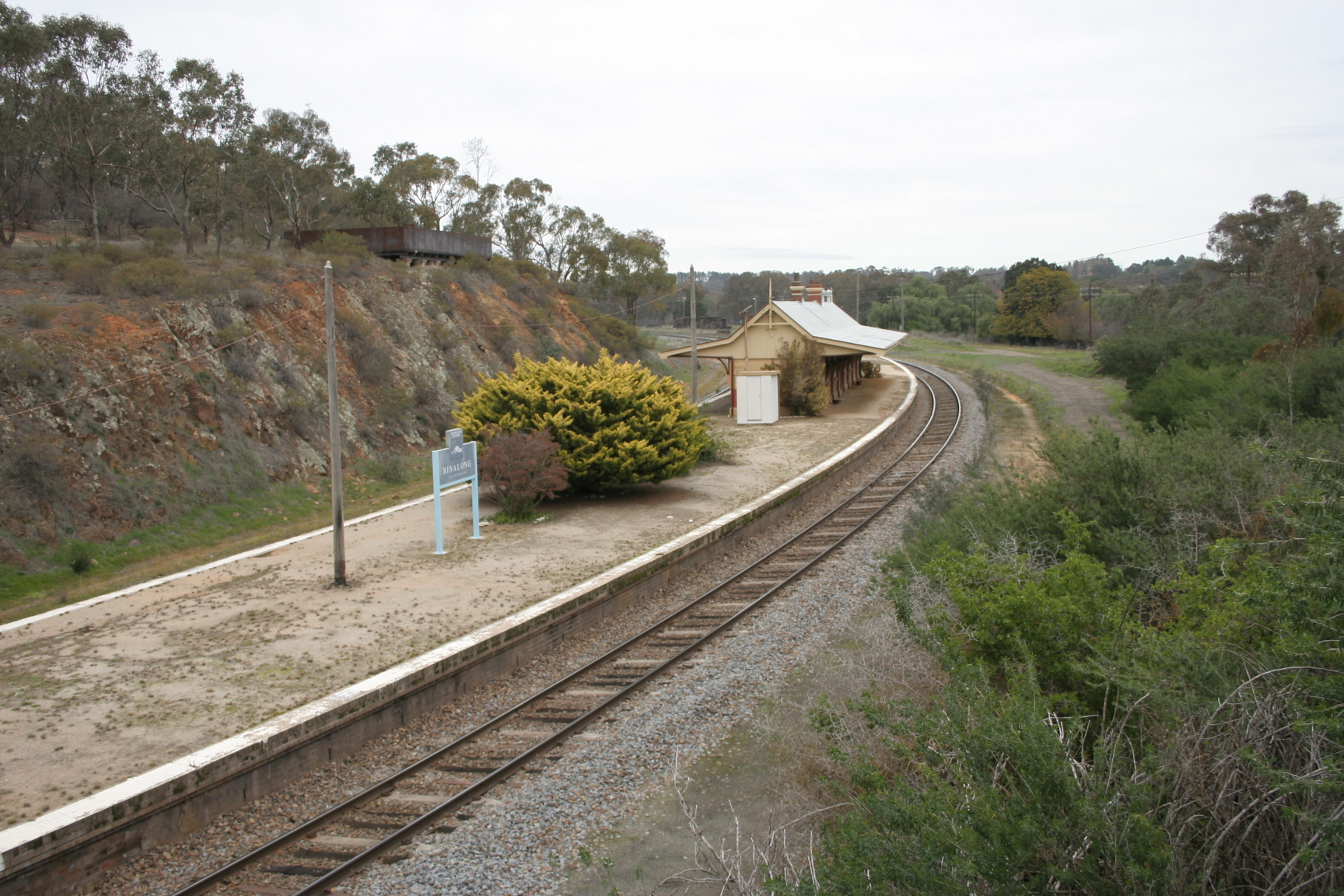 New station, but also closed